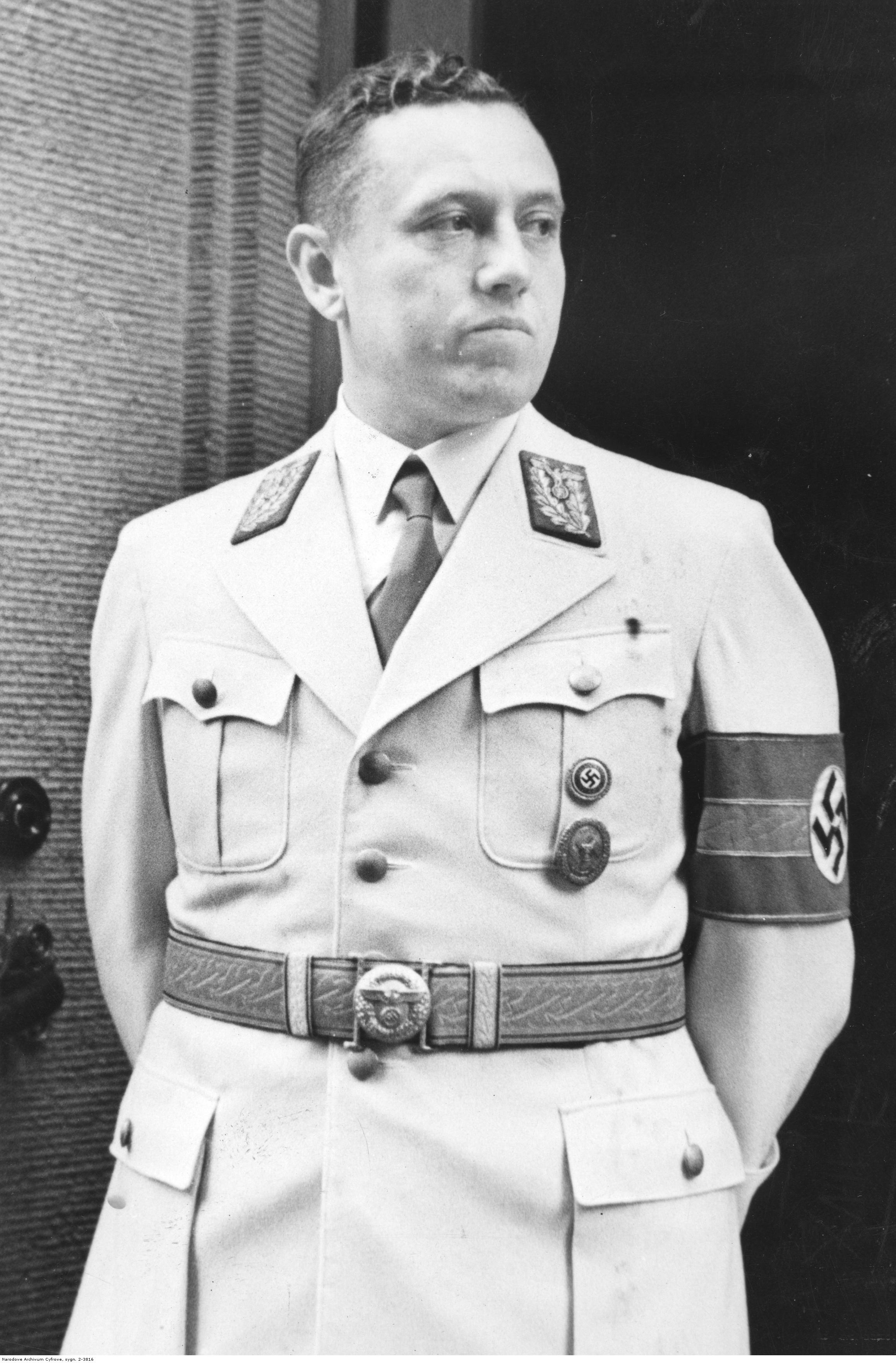 Albert Forster - Gdansk gauleiter - situational photography.